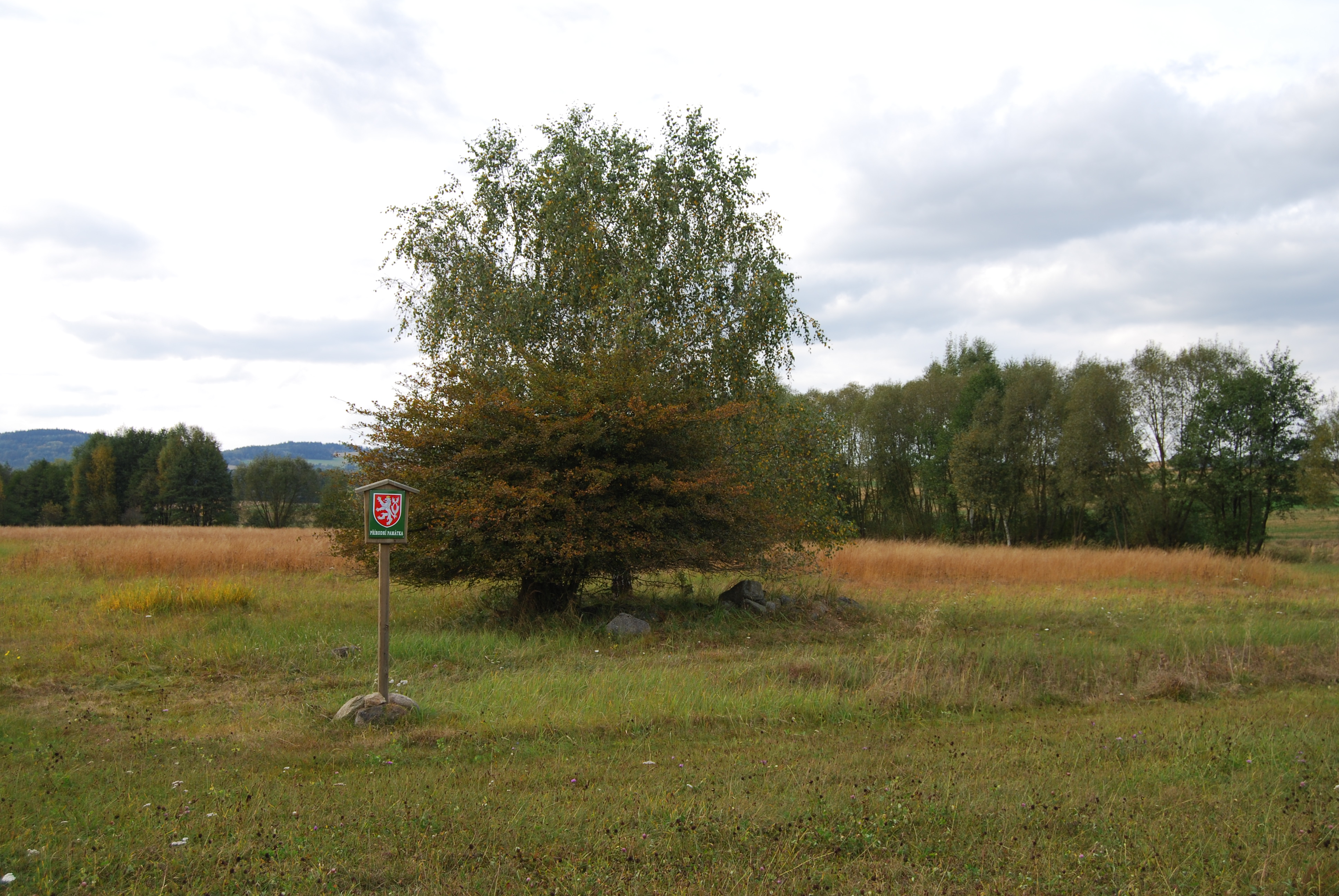 Natural monument Pastviny u Záhorčice near Záhorčice village, Strakonice District, Czech Republic.